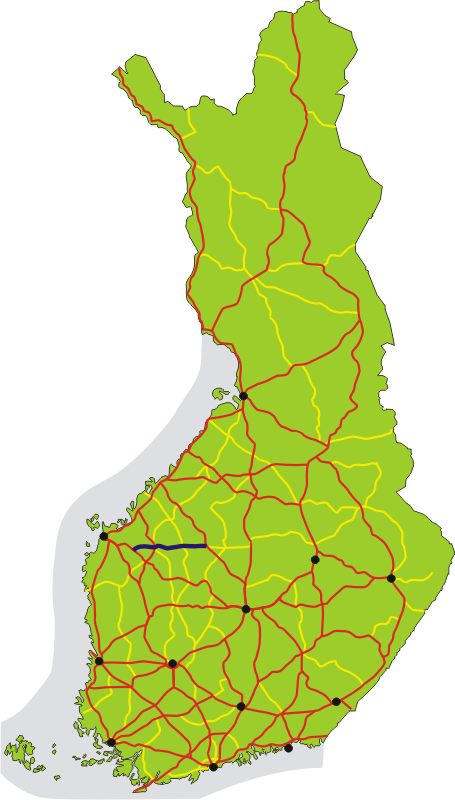 Map of the main road (highway) 16 in Finland, shown in dark blue. The other 1st class main roads (numbers 1–29) are red, 2nd class main roads (numbers 40–98) yellow. Black dots show the 12 biggest urban areas.